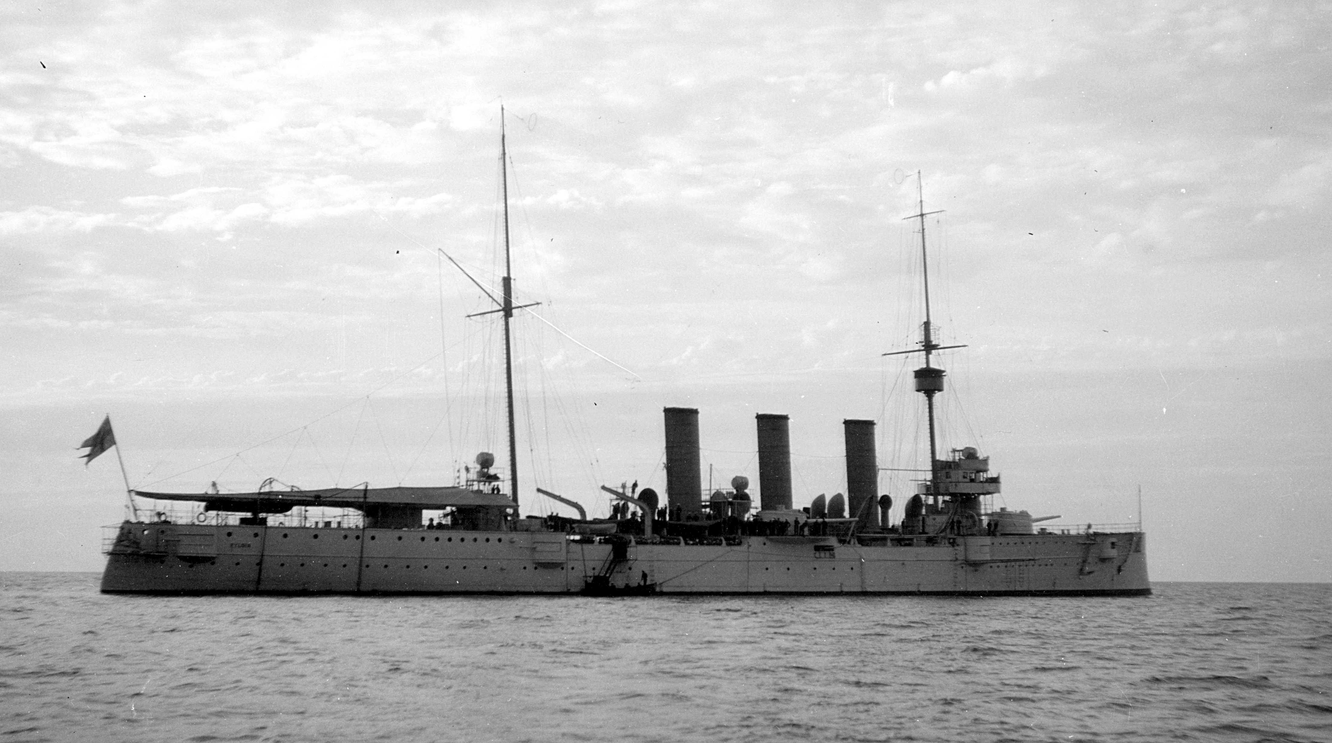 Swedish cruiser HMS Fylgia, LOC TITLE: Prince William's ship, Sept. 1921.